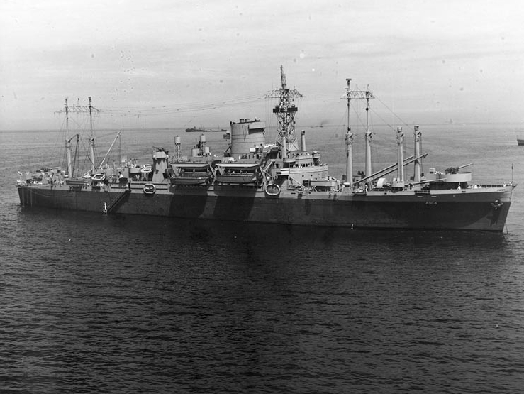 The U.S. Navy amphibious force command ship USS Ancon (AGC-4) on 11 June 1943 during preparations for the invasion of Sicily.